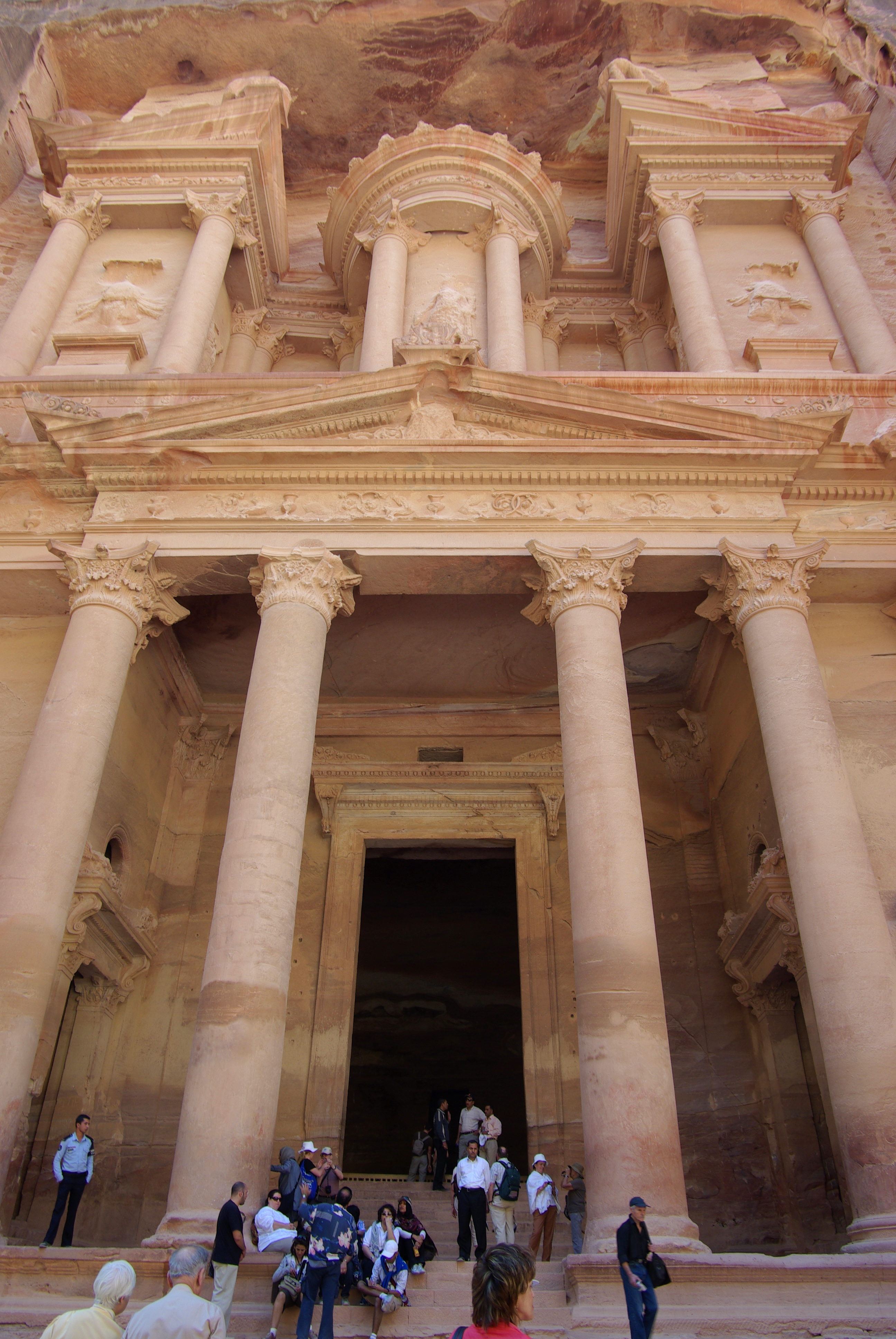 Petra, Al Khazneh